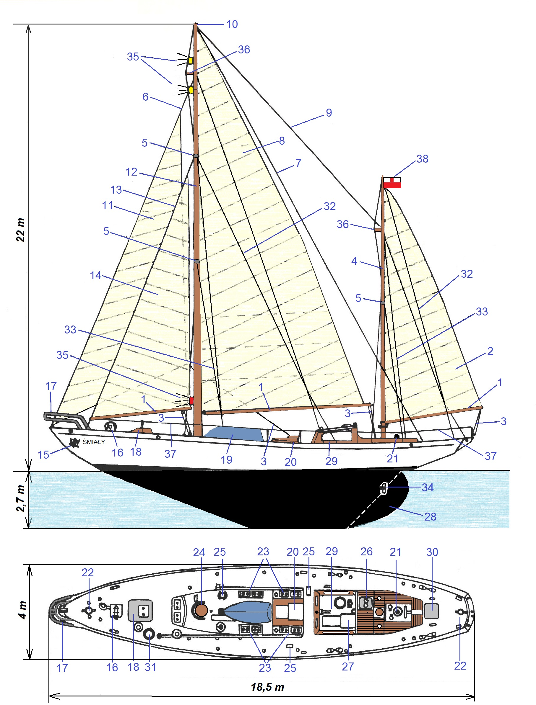 1 – Boom; 2 – Mizzen-sail; 3 – Sheet; 4 – Mizzen-mast; 5 – Crosstree; 6 – Topmast stay; 7 – Backstay; 8 – Mainsail; 9 – Topstay; 10 – Truck; 11 – Yankee; 12 – Main-mast; 13 – Jib stay; 14 – Foresail; 15 – Anchor; 16 – Windlass; 17 – Pulpit; 18 – Trapdoor to forepeak; 19 – Dinghy; 20 – Companion way; 21 – Wheel and binnacle; 22 – Samson post; 23 – Skylight; 24 – Partners; 25 – Ventilator; 26 – Trapdoor to engine room; 27 – Trapdoor to cabin; 28 – Rudder; 29 – Navigation cabin; 30 – Trapdoor to lazarette; 31 – Bilgepump; 32 – Runner; 33 – Shroud; 34 – Propeller; 35 – Lights; 36 – Jumper strut; 37 – Reling; 38 – Ensign